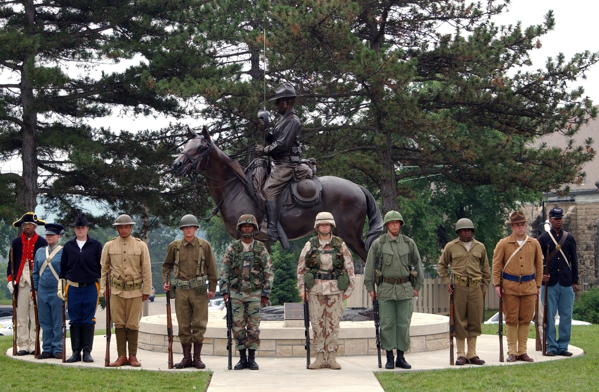 "Fort Riley Soldiers represent various periods in the Army's history during a ceremony commerating the Army's 232nd birthday June 14 at Fort Riley, Kan."